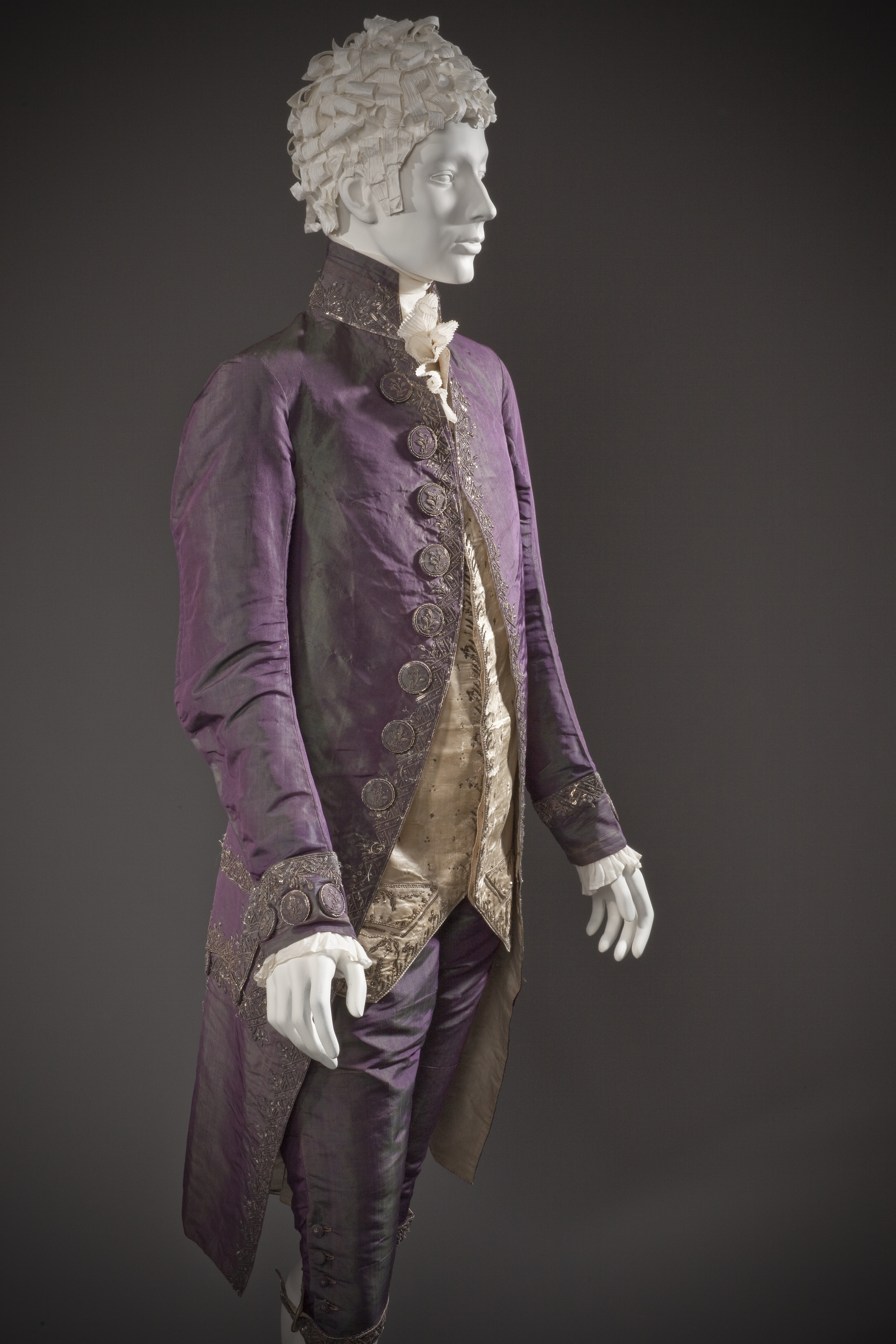 Man's suit, Europe, c. 1790, altered c. 1805. Coat and breeches of shot silk (changeable taffeta) with purple warp and nweft; waistcoat of silk satin.